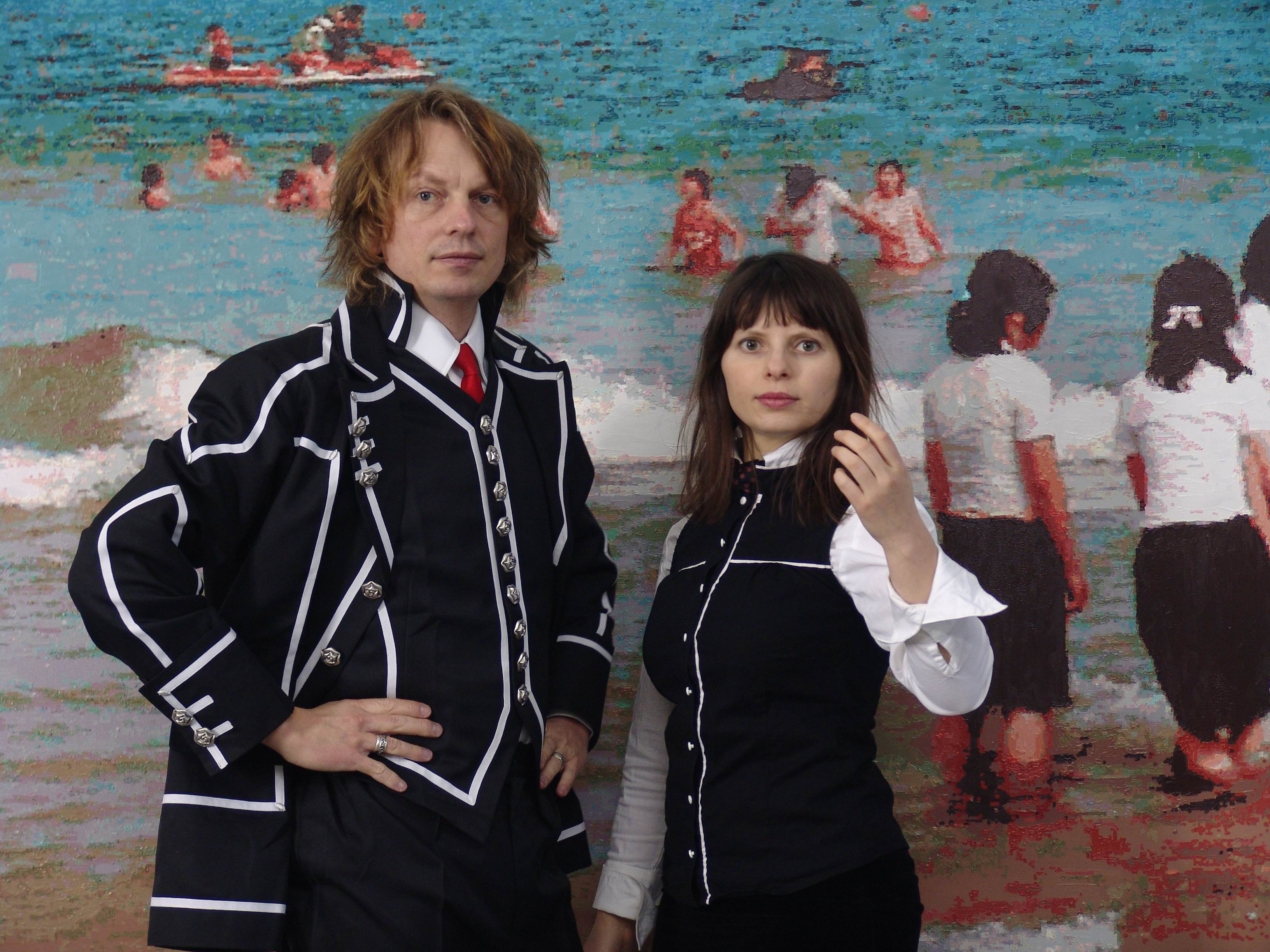 The picture was taken in 2010 in the studio of Nina and Torsten Römer with self-timer.